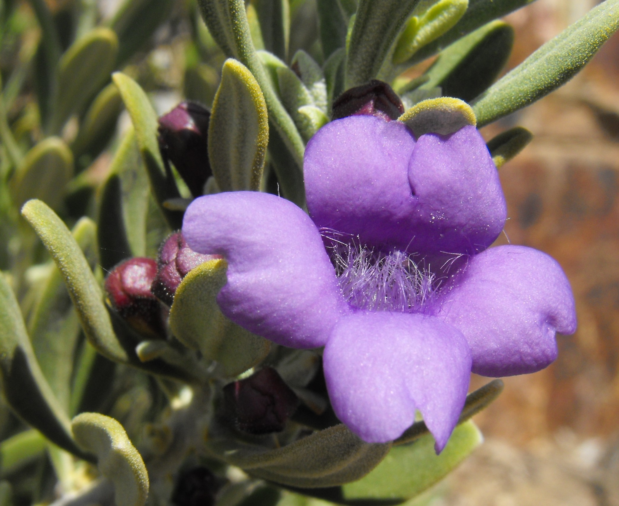 Leucophyllum revolutum at the San Diego Botanic Garden in Encinitas, California, USA. Identified by sign.